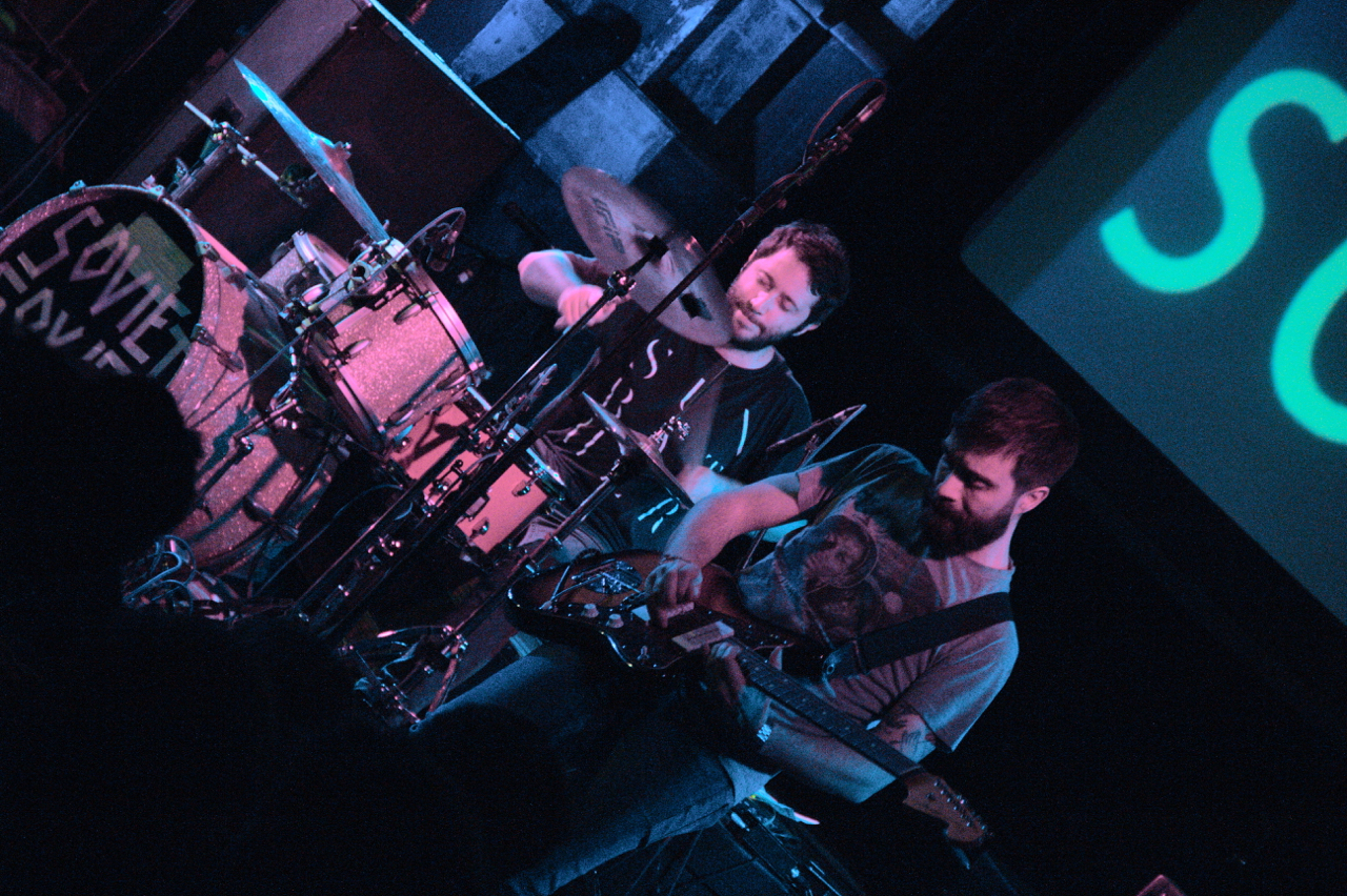 The KVB & Soviet Soviet at UTConnewitz 3.2.2017